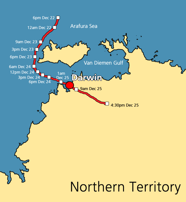 Cyclone Tracy's path based on the track map in the book Tracy by Gary McKay.